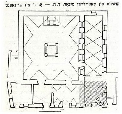 the great synagogue of Lutsk. Old plane reprinted.